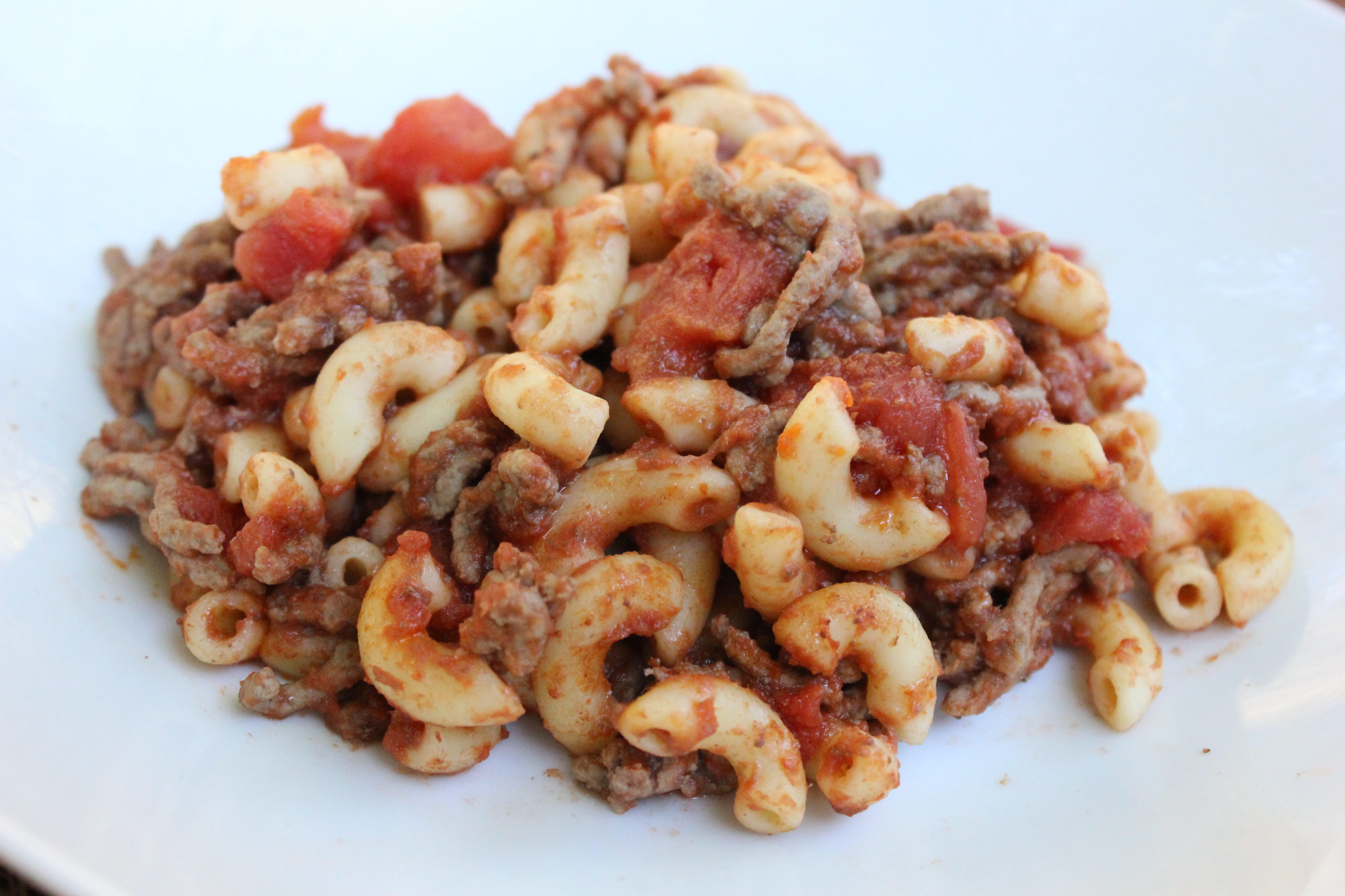 A classic New England dish, comprised of elbow macaroni, tomato, tomato based sauce, and ground beef.